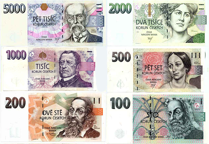 Valid banknotes of Czech koruna (Kč) in 2014.